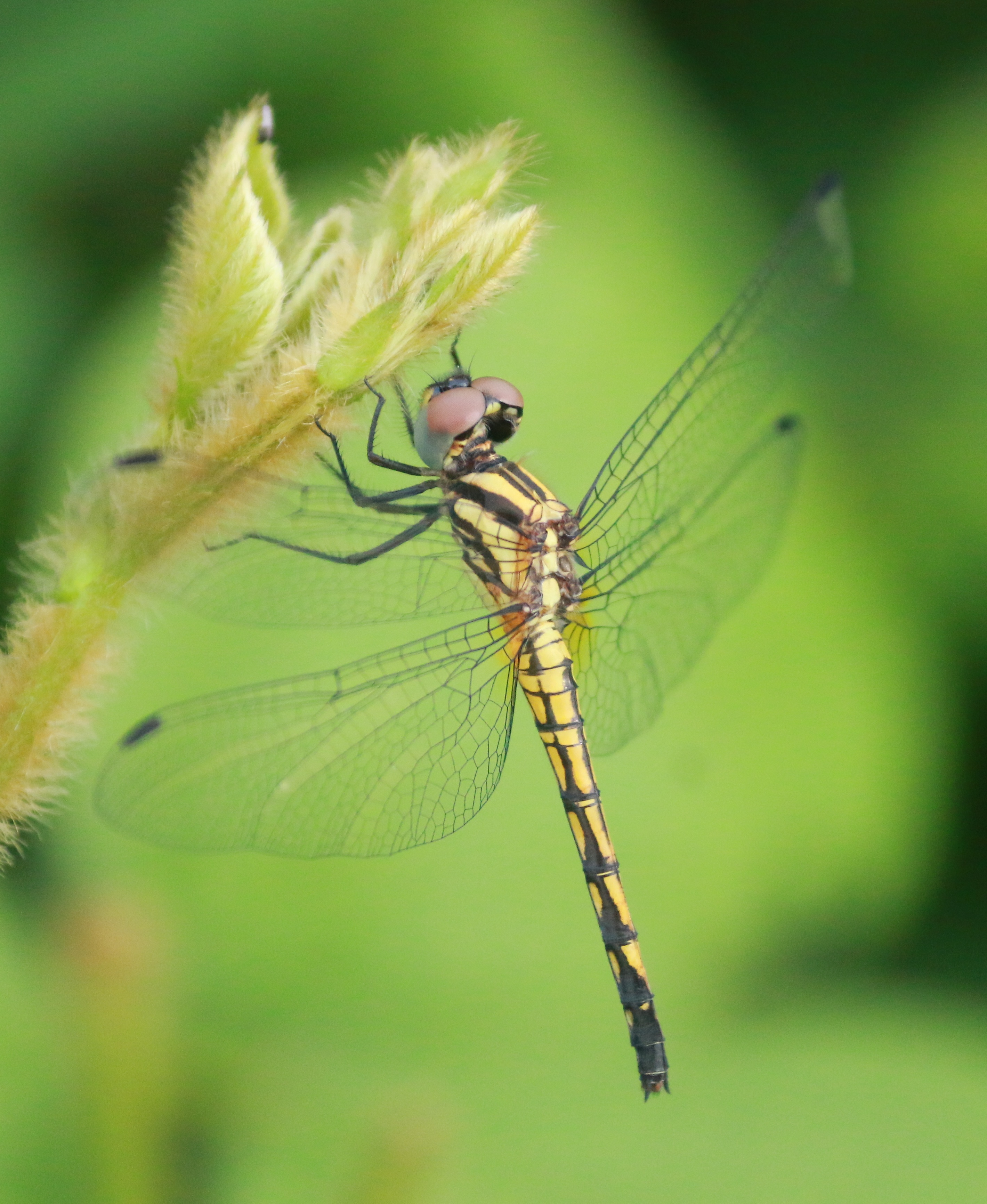 Trithemis festiva,Black Stream Glider ,teneral